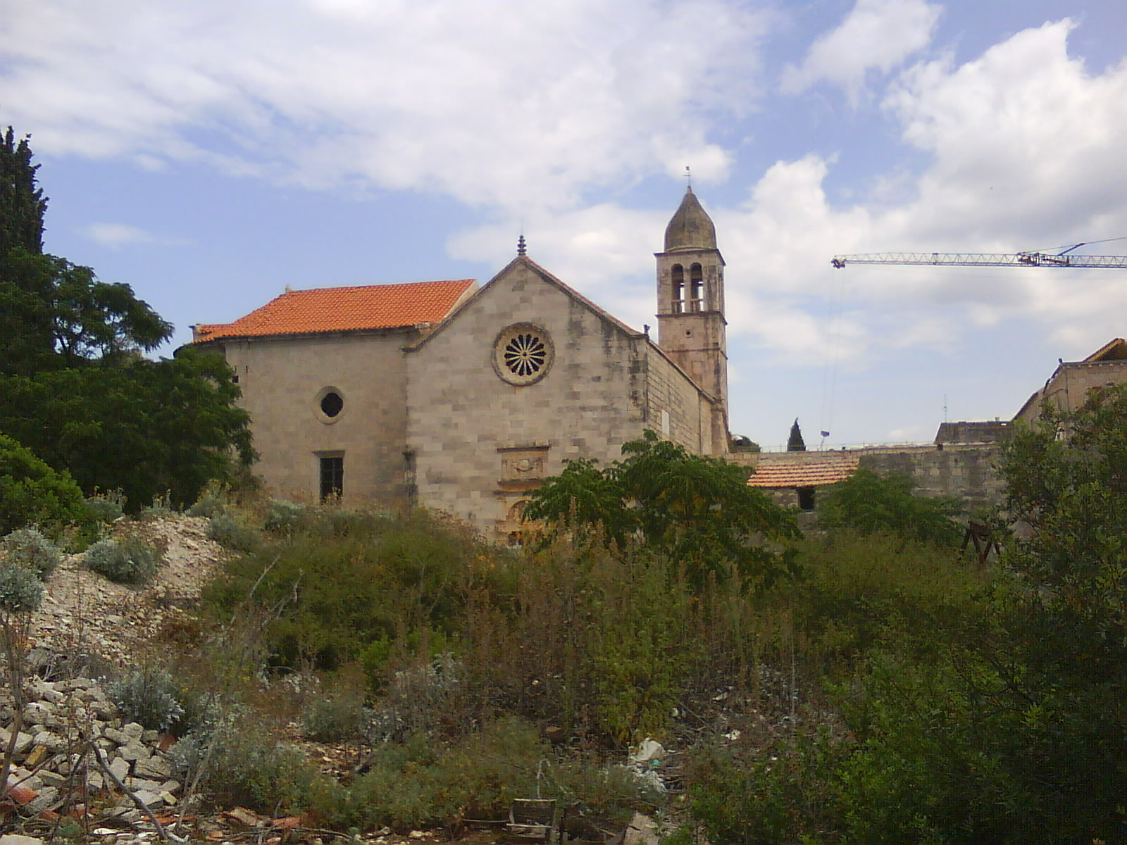 Franciscan monastery on island of Badija